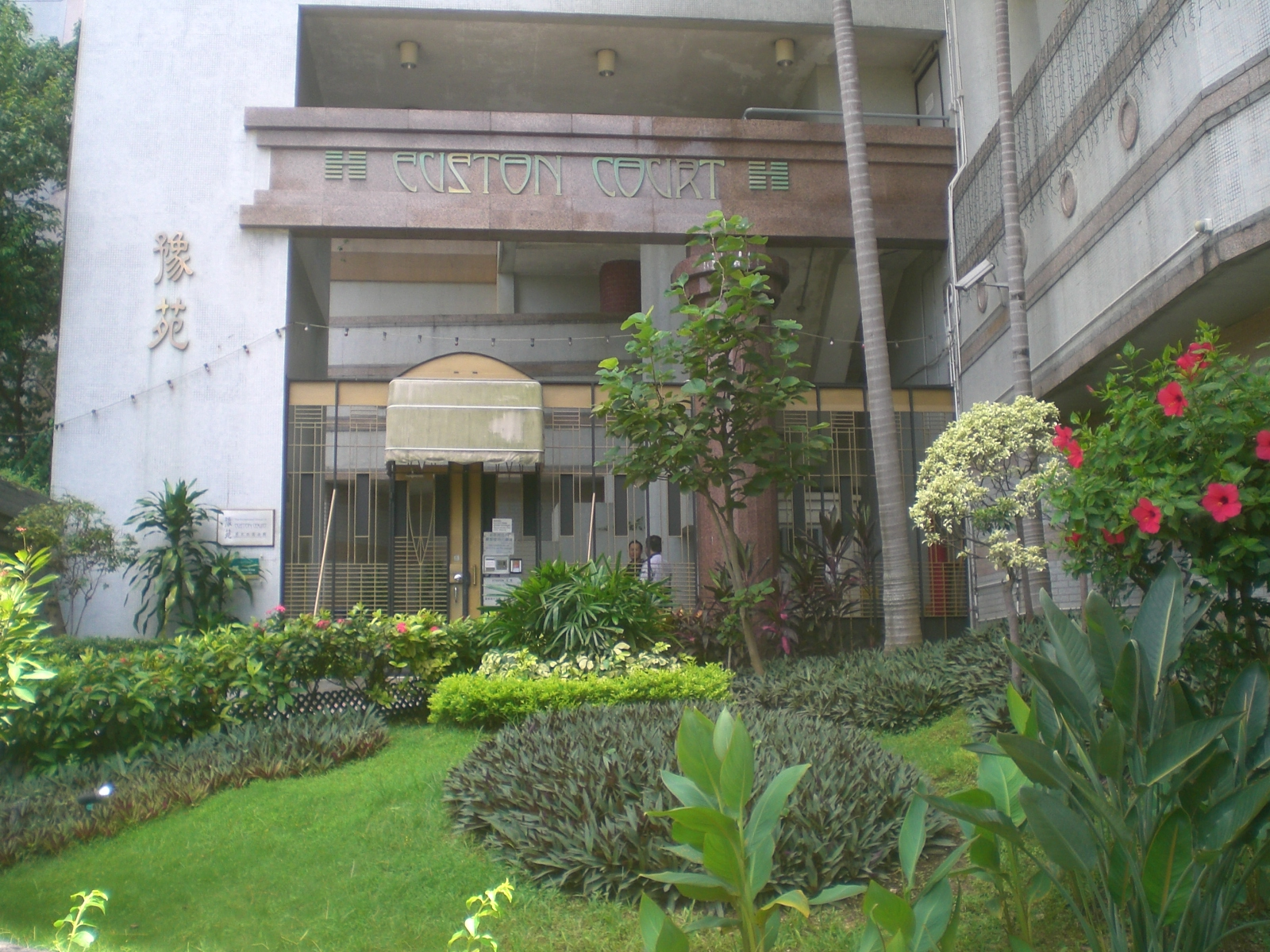 香港島zh:西半山豫苑